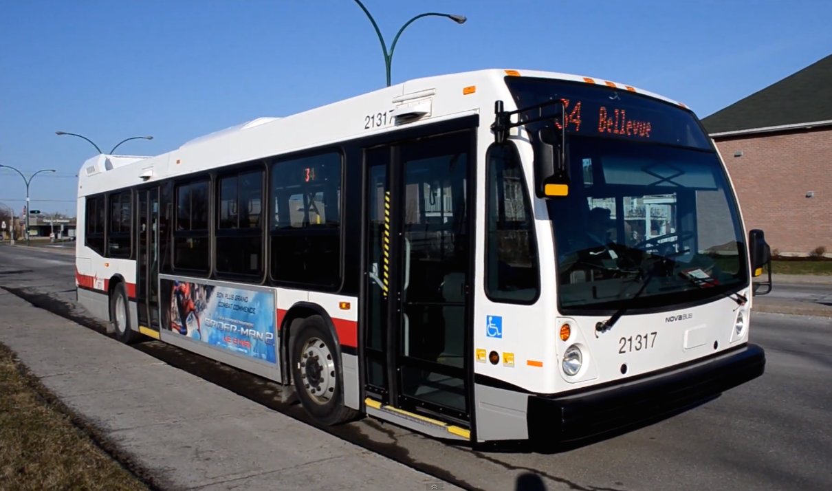 RTL bus on the 34 Bellevue route.